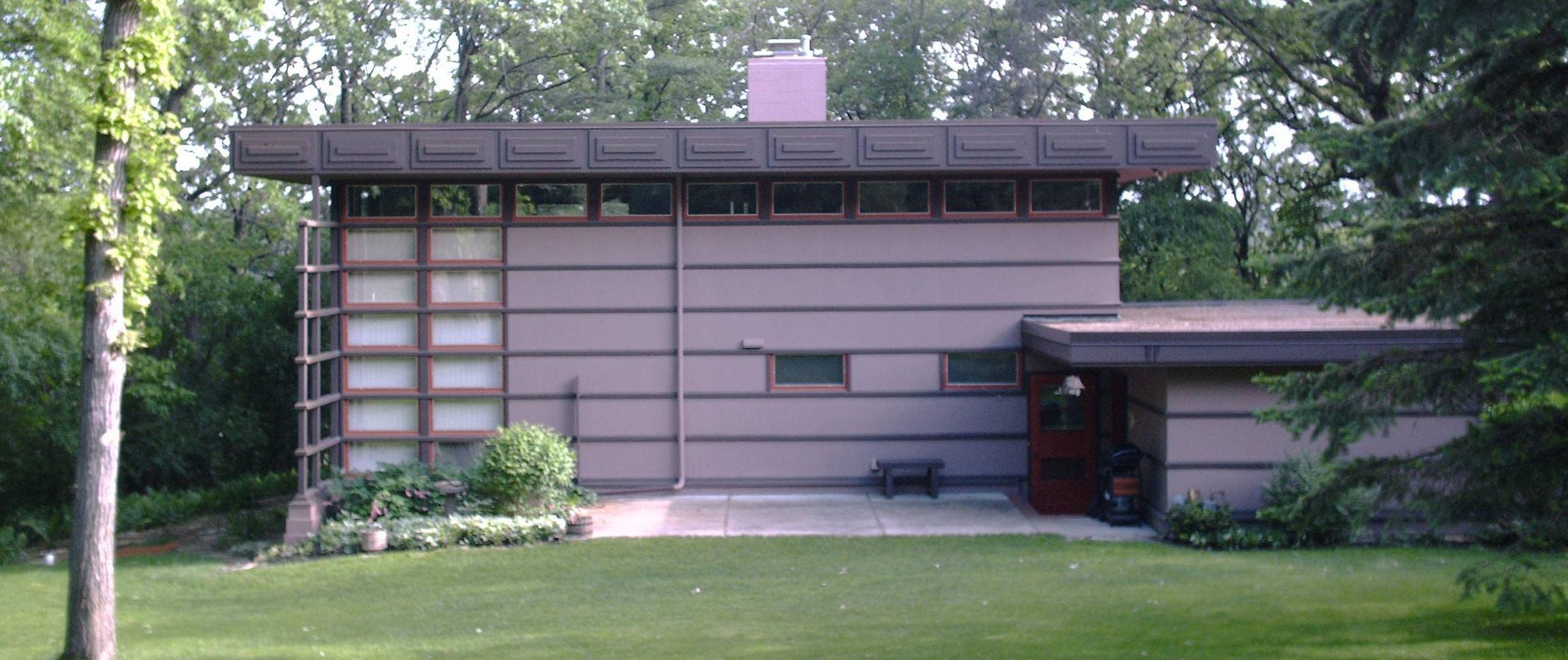 McBean House in Rochester, Minnesota, designed by Frank Lloyd Wright.